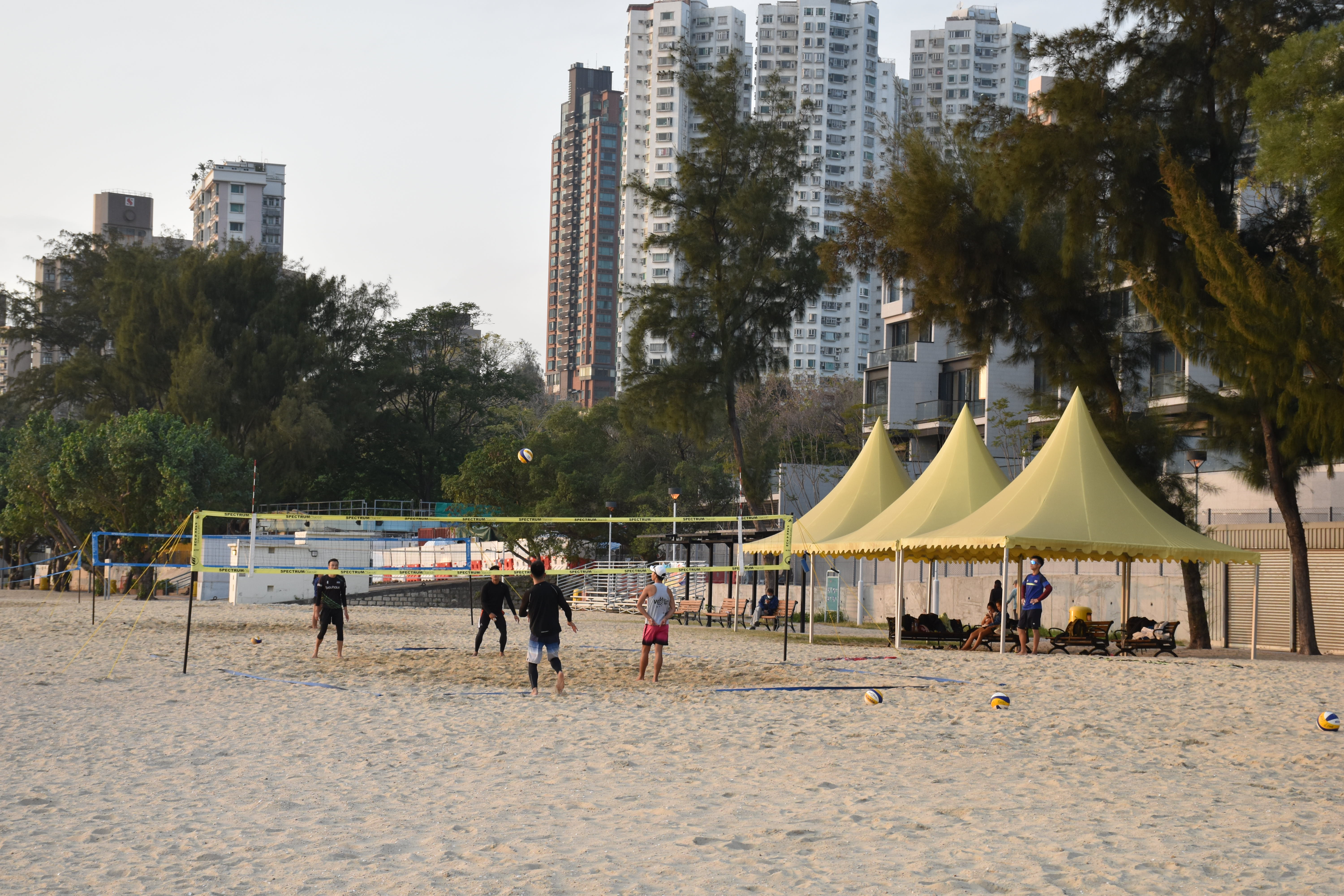 A teenagers is playing volleyball game in Golden Beach at Tuen Mun